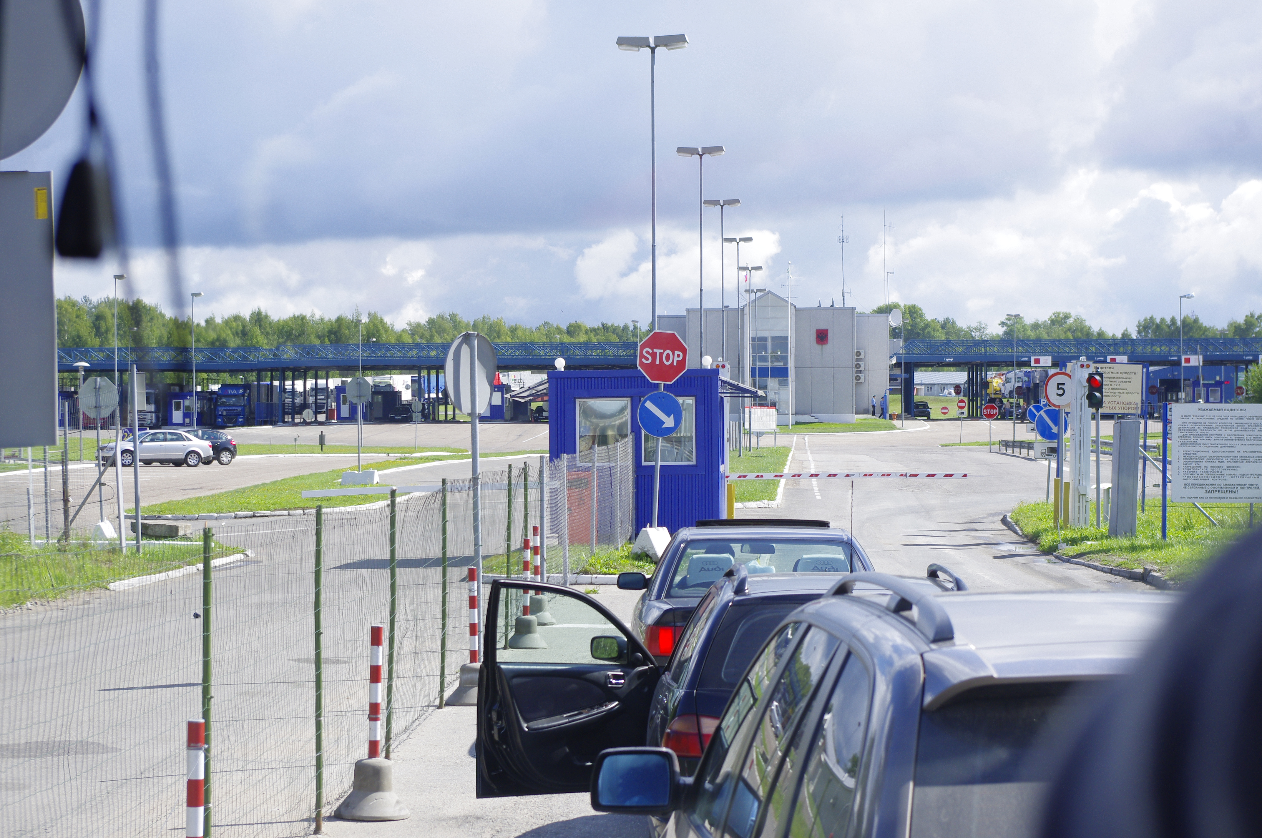 Burachki checkpoint on Russia-Latvia border